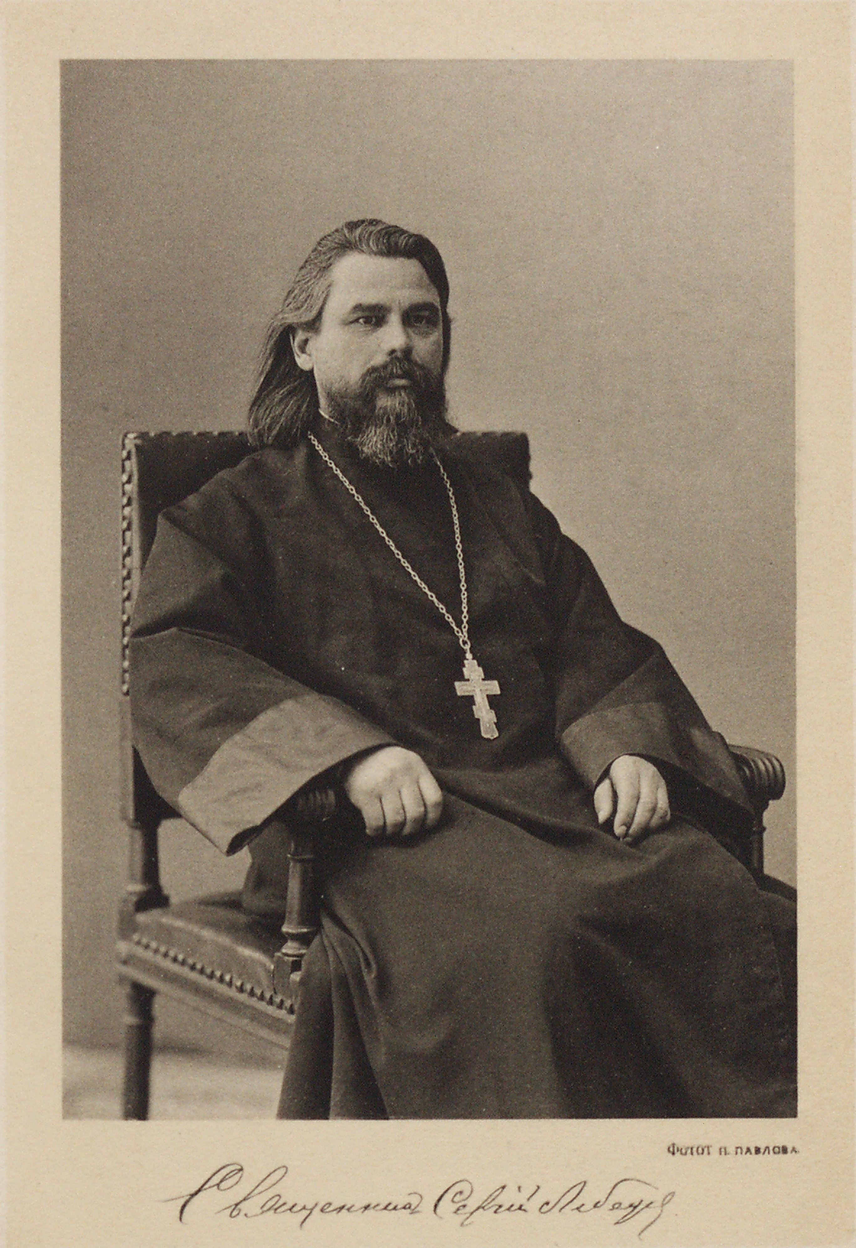 Sergey Alexandrovich Lebedev. Priests of the All Saints Church at Vsekhsvyatskoye.